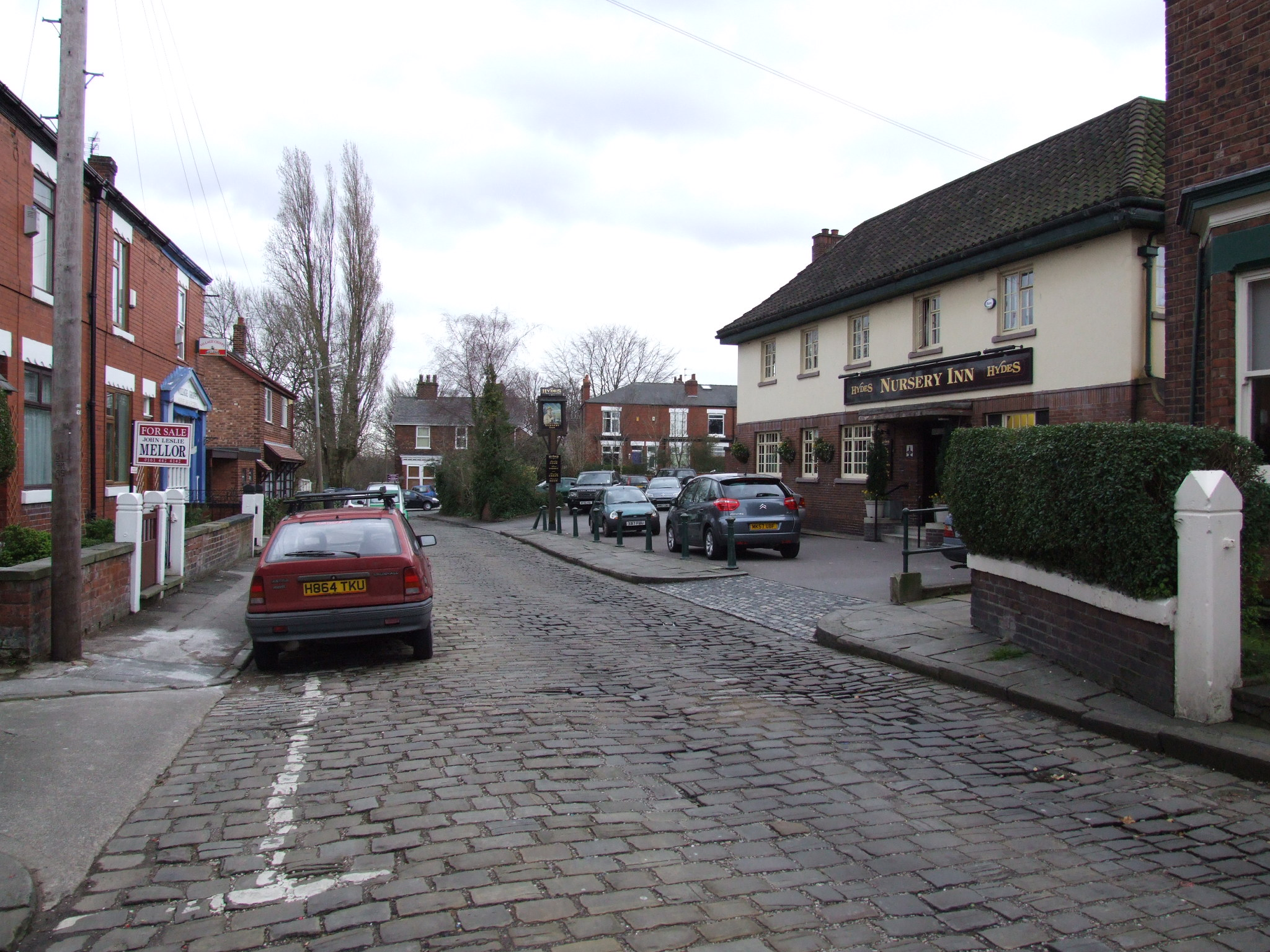 Heaton Norris is situated in Stockport, north of the River Mersey. It was a parish in the Salford hundred. The A626, A6 and A5145 pass through, as does the M60, and the Manchester/ London railway line that passes over the Stockport viaduct. Green Lane, Nursery Inn. - Google Maps - Google Earth